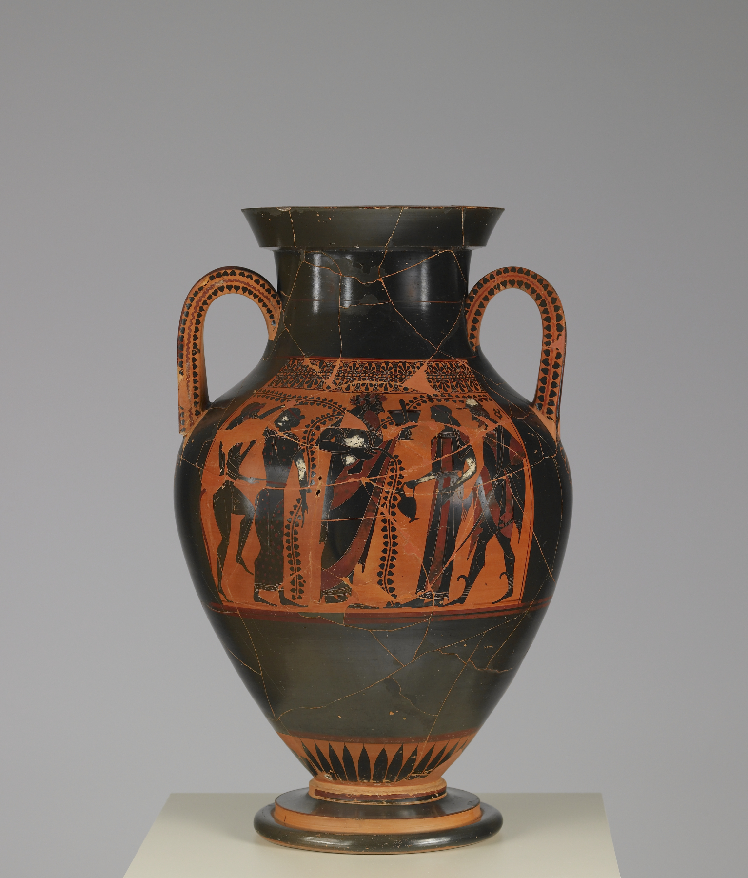 The Lysippides Painter is renowned for his work with another vase-painter, the Andokides Painter. They produced remarkable "bilingual" vases on which the Lysippides Painter painted one side in the black-figure technique, and the Andokides Painter painted the same image in the newly developed red-figure technique on the other side. On this vase, however, we have an example of the Lysippides Painter's early work in black-figure. On the front, Hermes escorts a woman towards the wine-god, Dionysus, whose satyr and maenad companions stand behind. On the back is a typical "departure scene," in which an armed warrior mounts his chariot as companions see him off.